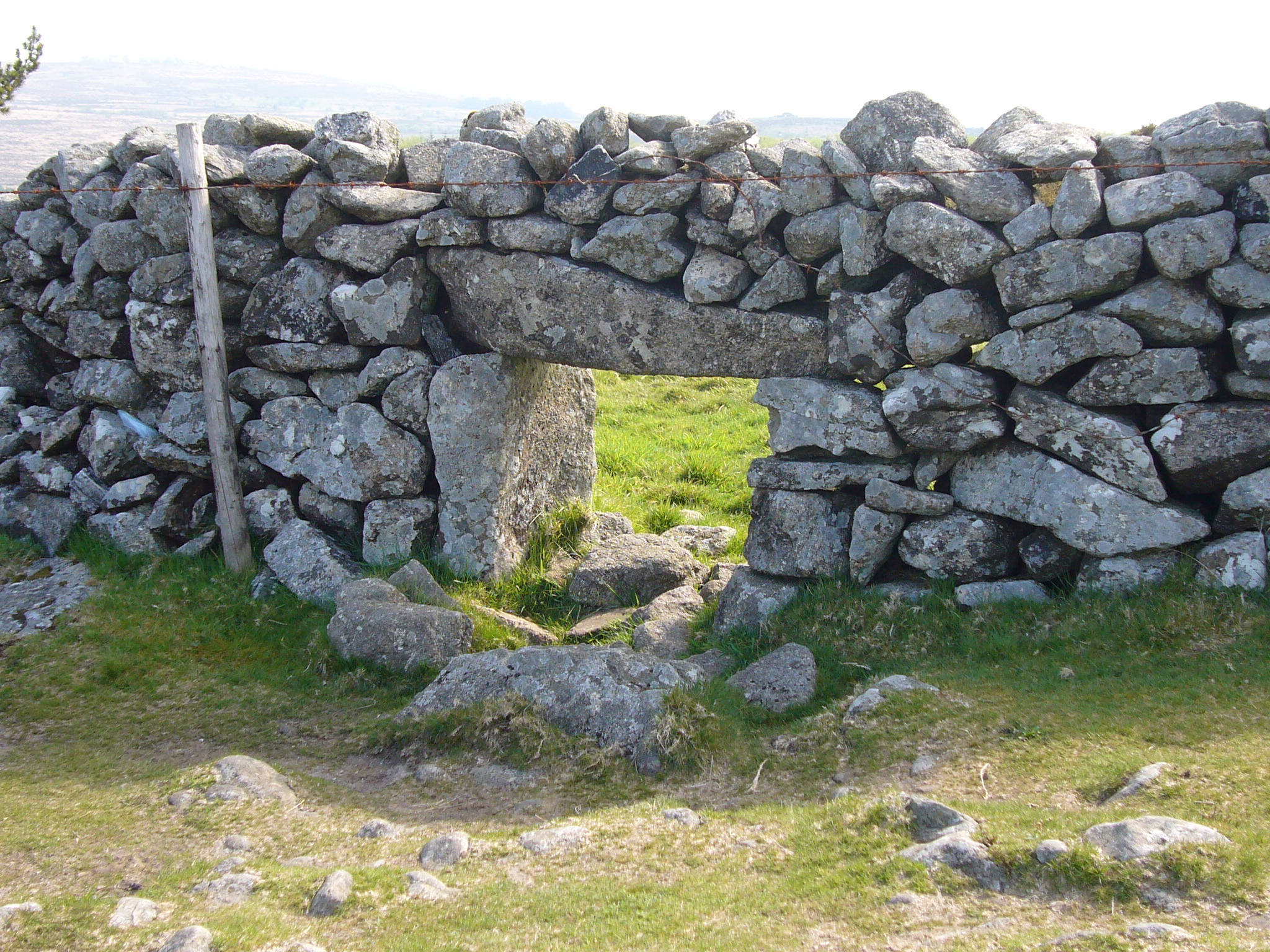 A "sheep creep" in a Dartmmor drystone wall. This allows sheep to get through the wall but not larger livestock such as horses or cattle.